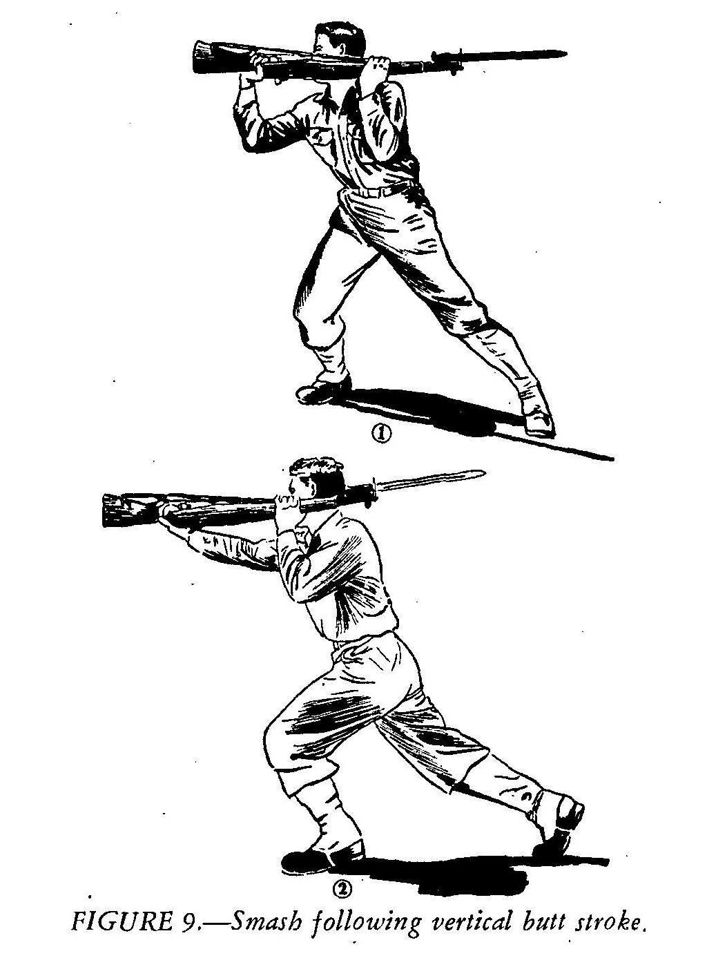 FIGURE 9.--Smash following vertical butt stroke. (Use of the rifle as a close-combat blunt weapon)